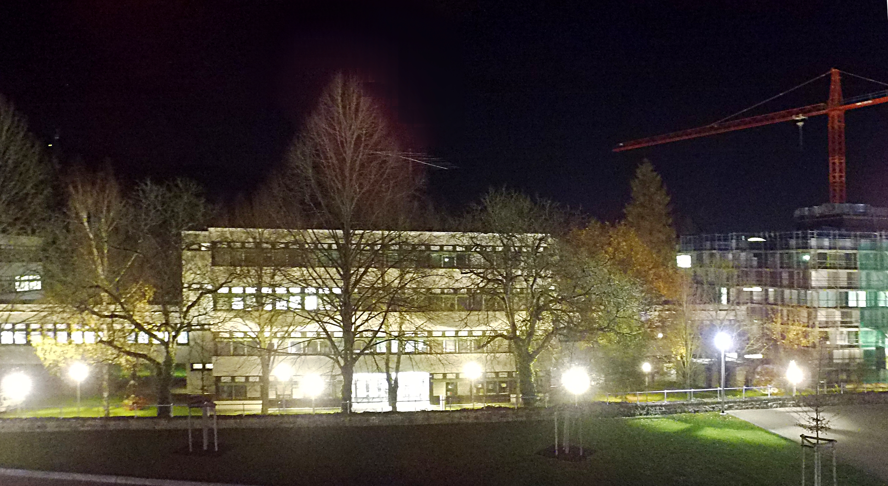 Hochschule Trier, University of applied sciences Trier, buildings B (Center) and C (on the right)